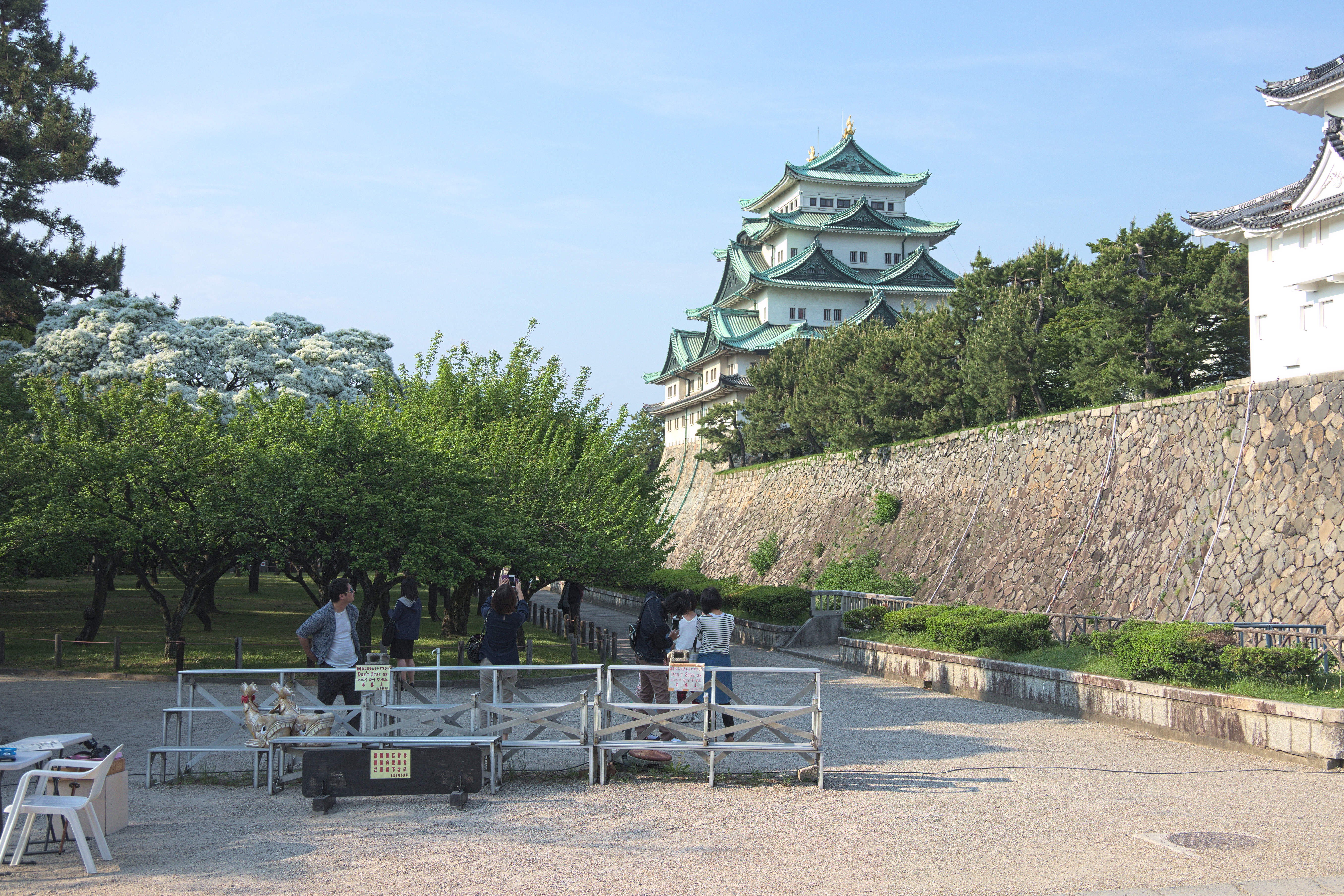 Nagoya, Castle.